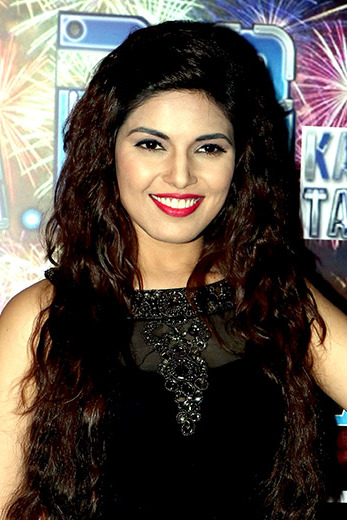 Shubhi Ahuja - Completion of 200 episodes bash of Yaro Ka Tashan, Apr 5, 2017.